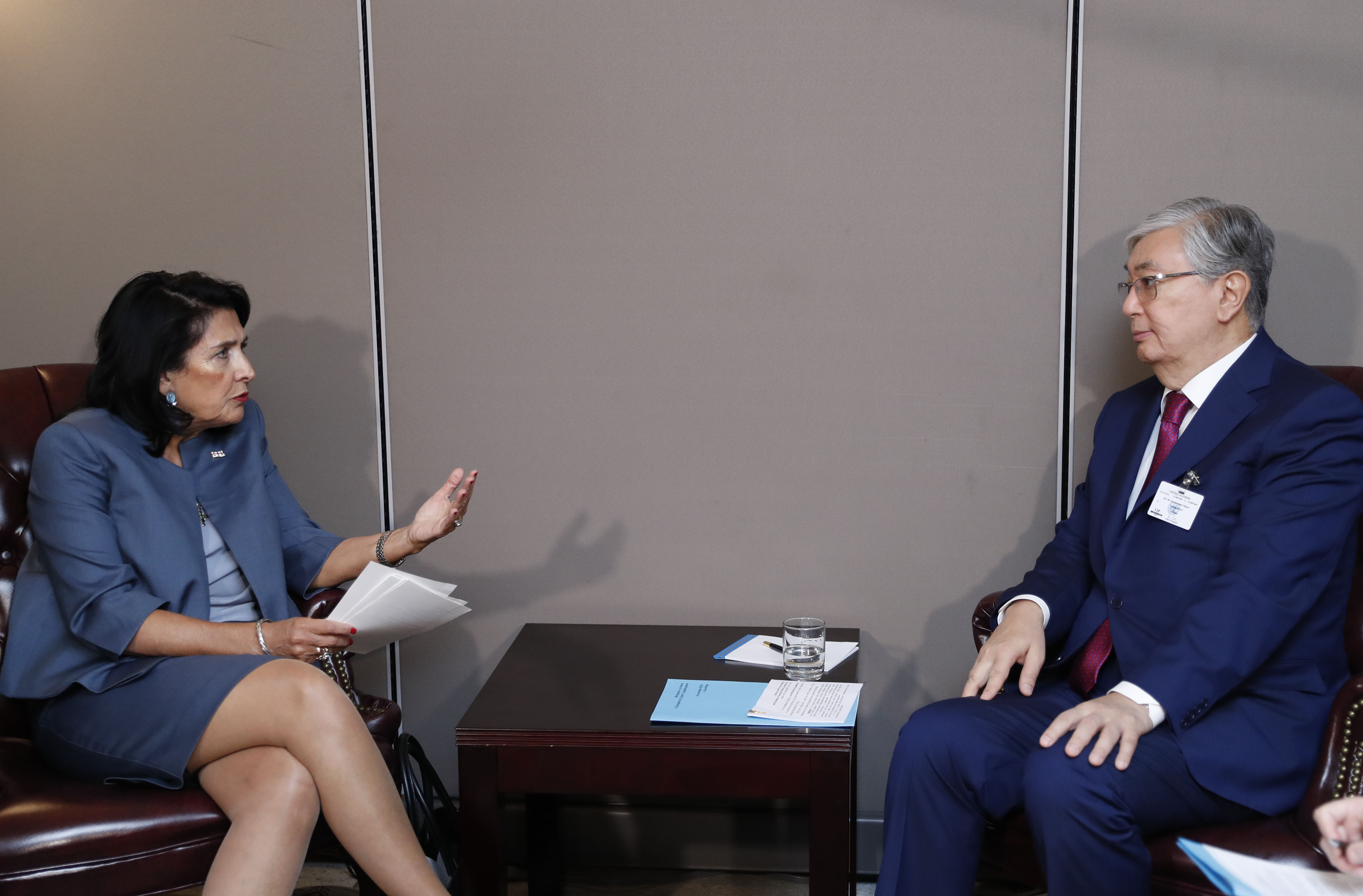 Georgian President Salome Zourabichvili and Kazakh President Kassym-Jomart Tokayev meeting on the sidelines of the 74th UN General Assembly.